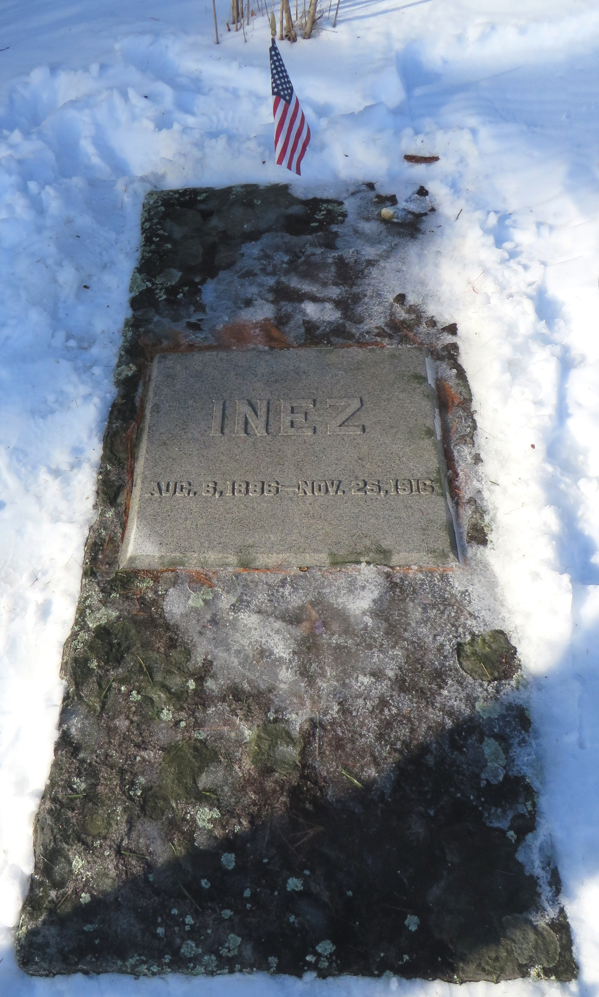 Inez Milholland's gravesite in the Lewis Cemetery, Lewis, New York, on the second anniversary of the Women's March on Washington, D.C.